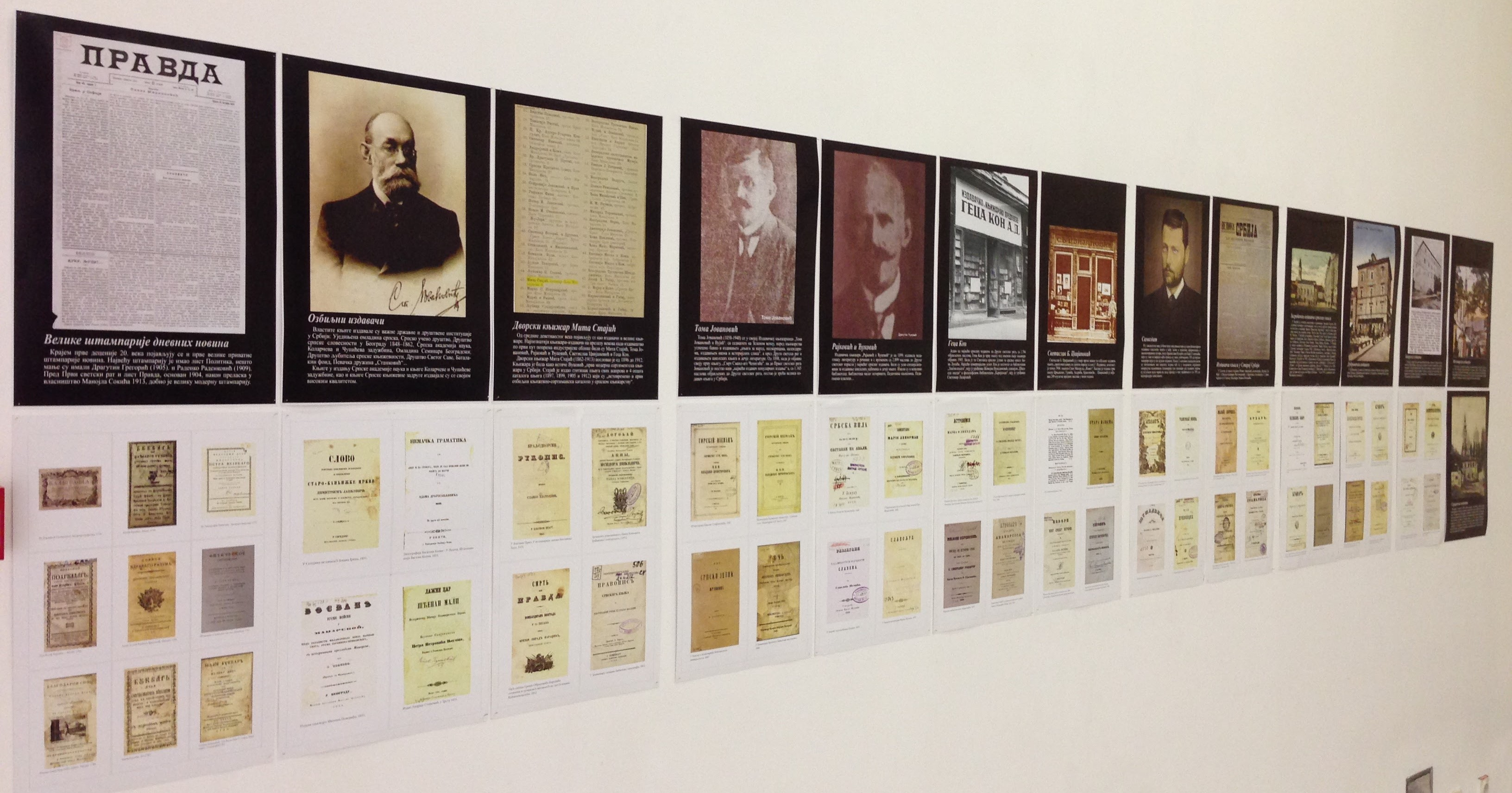 The exhibition at the Gallery of RTS - Old Serbian publishing (1494-1918).